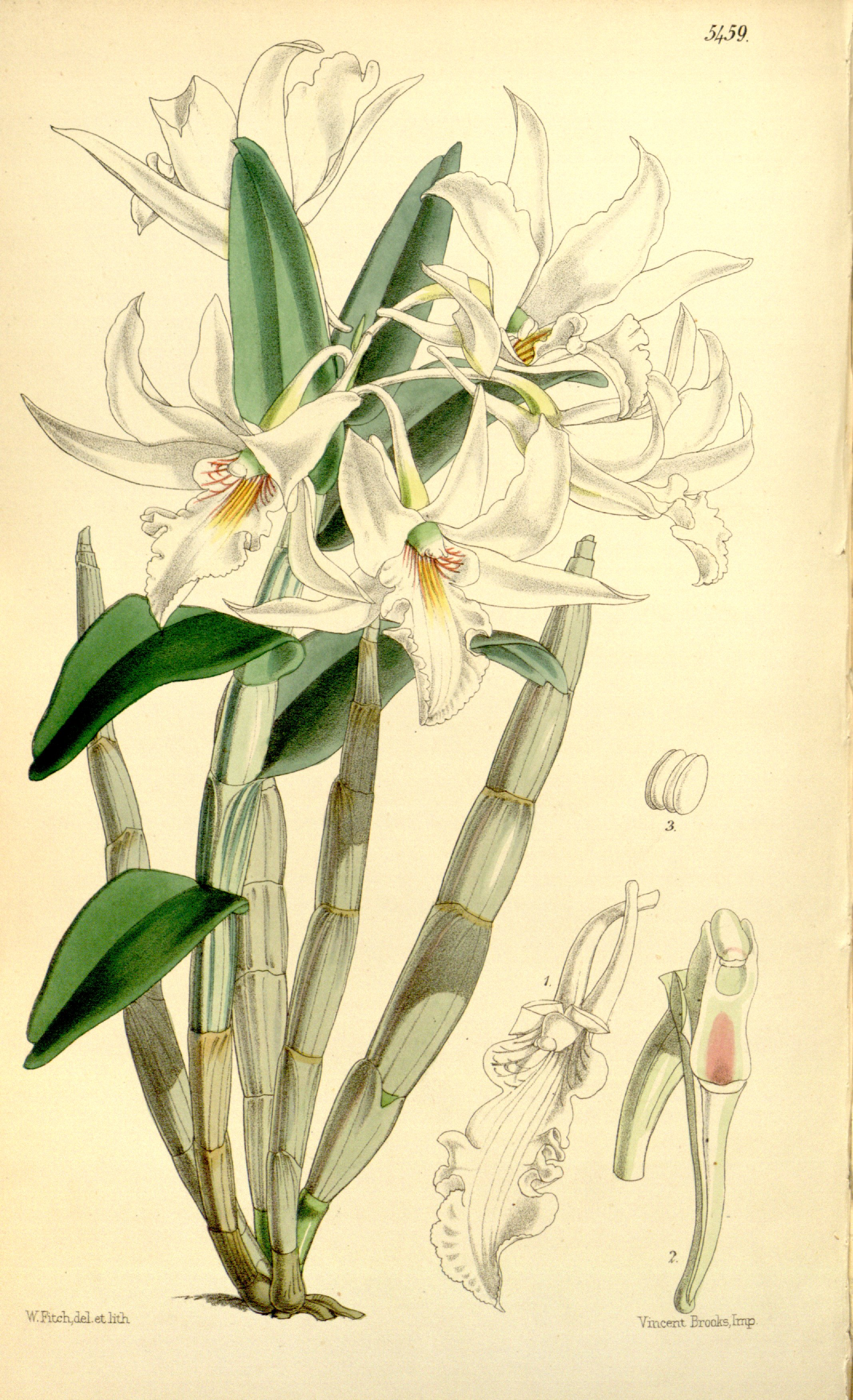 Illustration of Dendrobium draconis (as syn. Dendrobium eburneum)